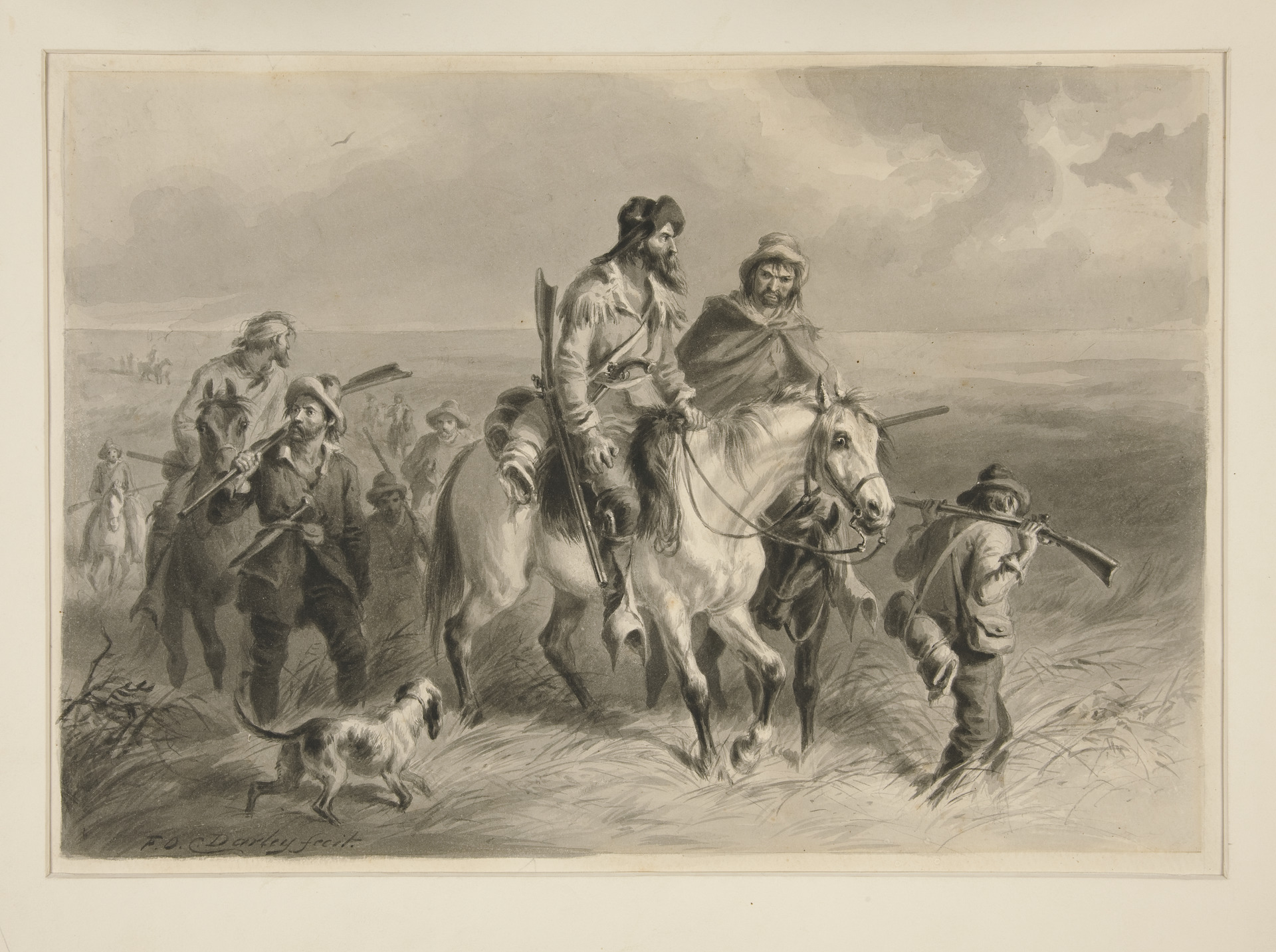 Border Ruffians Invading Kansas by F. O. C. Darley, Yale University Art Gallery